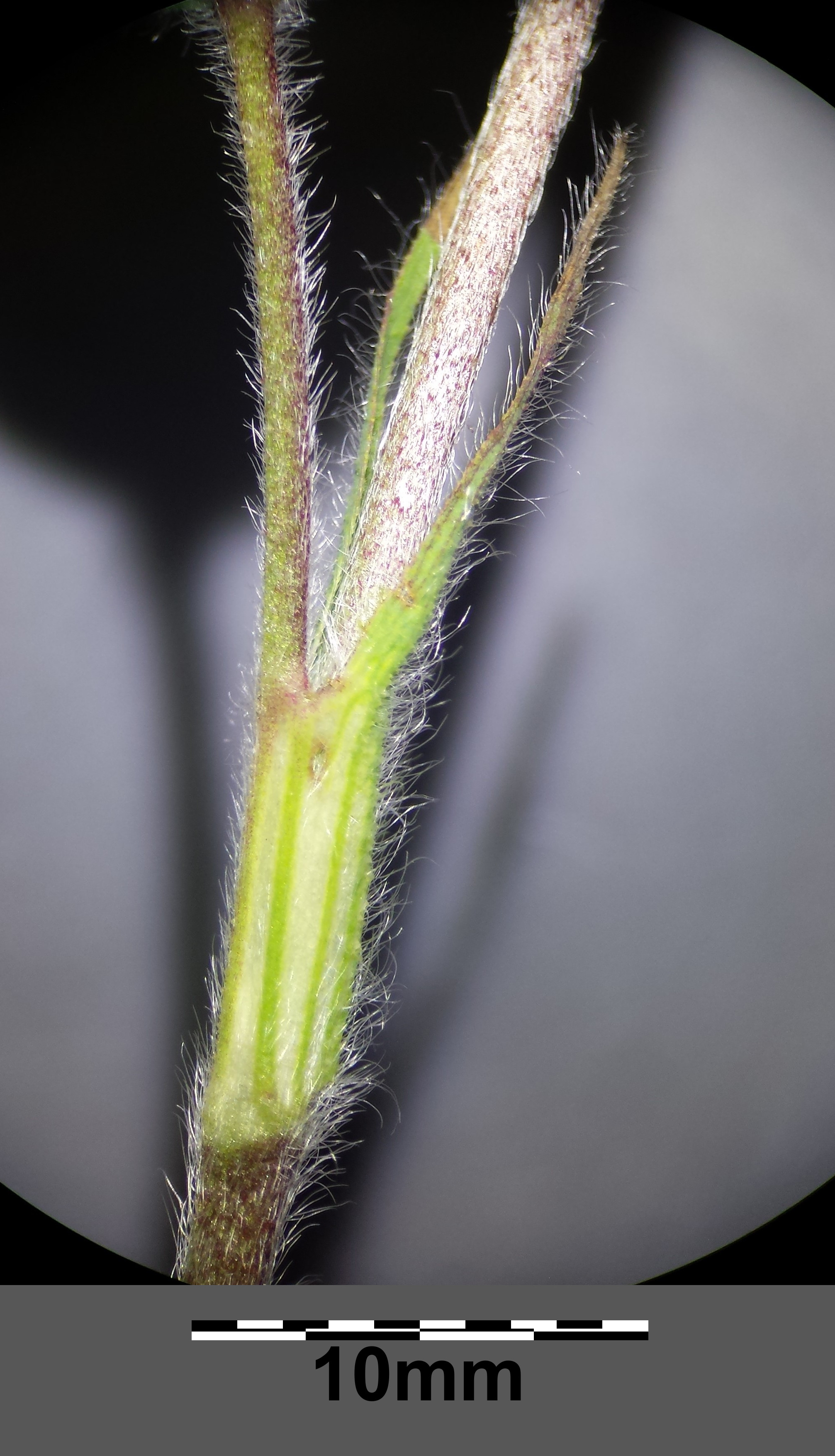 Stem with stipules Taxonym: Trifolium ochroleucon ss Fischer et al. EfÖLS 2008 ISBN 978-3-85474-187-9 Location: near Kaltenleutgeben, district Mödling, Lower Austria - ca. 430 m a.s.l. Habitat: meadows